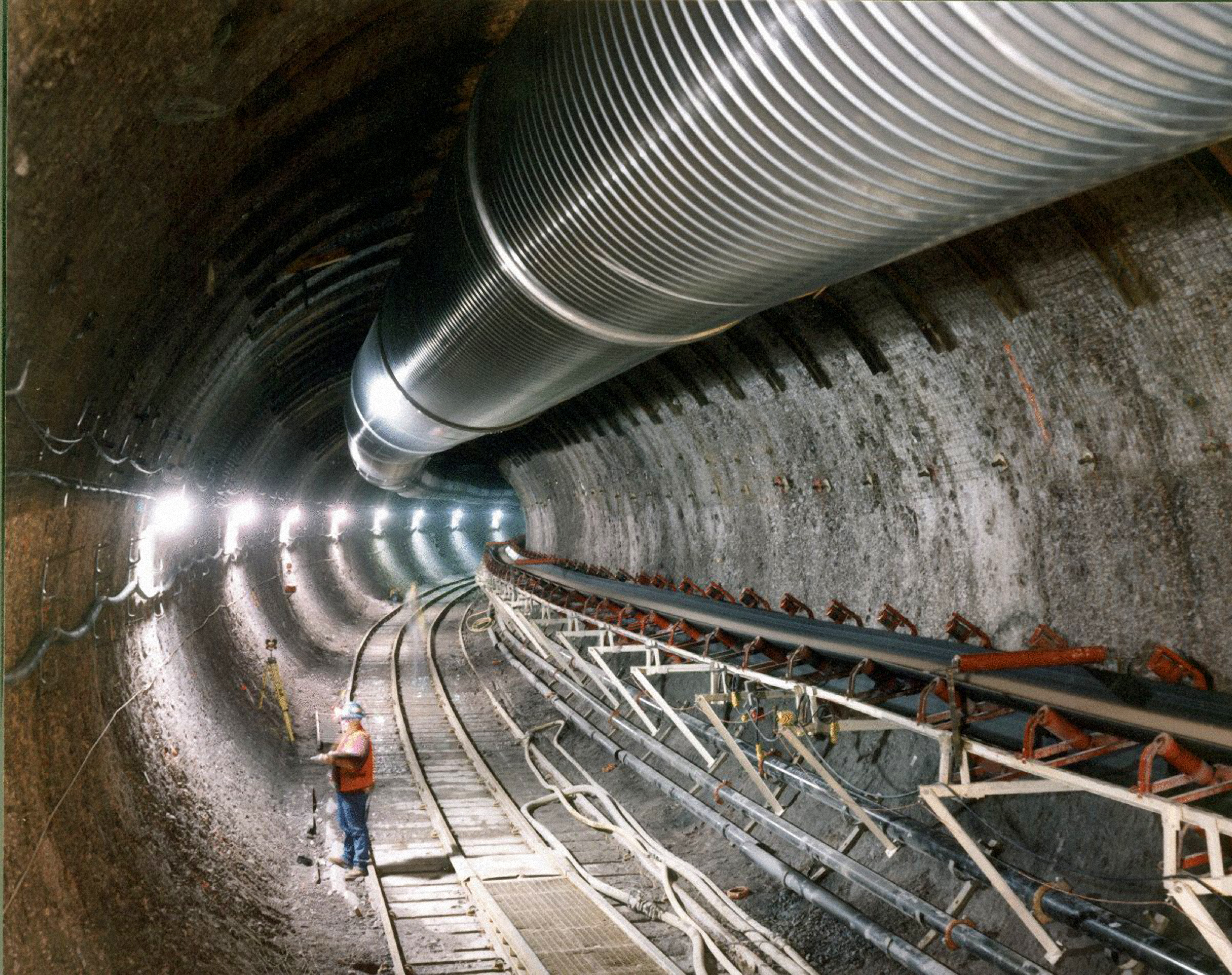 The underground Exploratory Studies Facility at Yucca Mountain in Nevada built by the Department of Energy to determine whether the location was suitable as a deep geological nuclear waste repository. Courtesy of the Department of Energy.